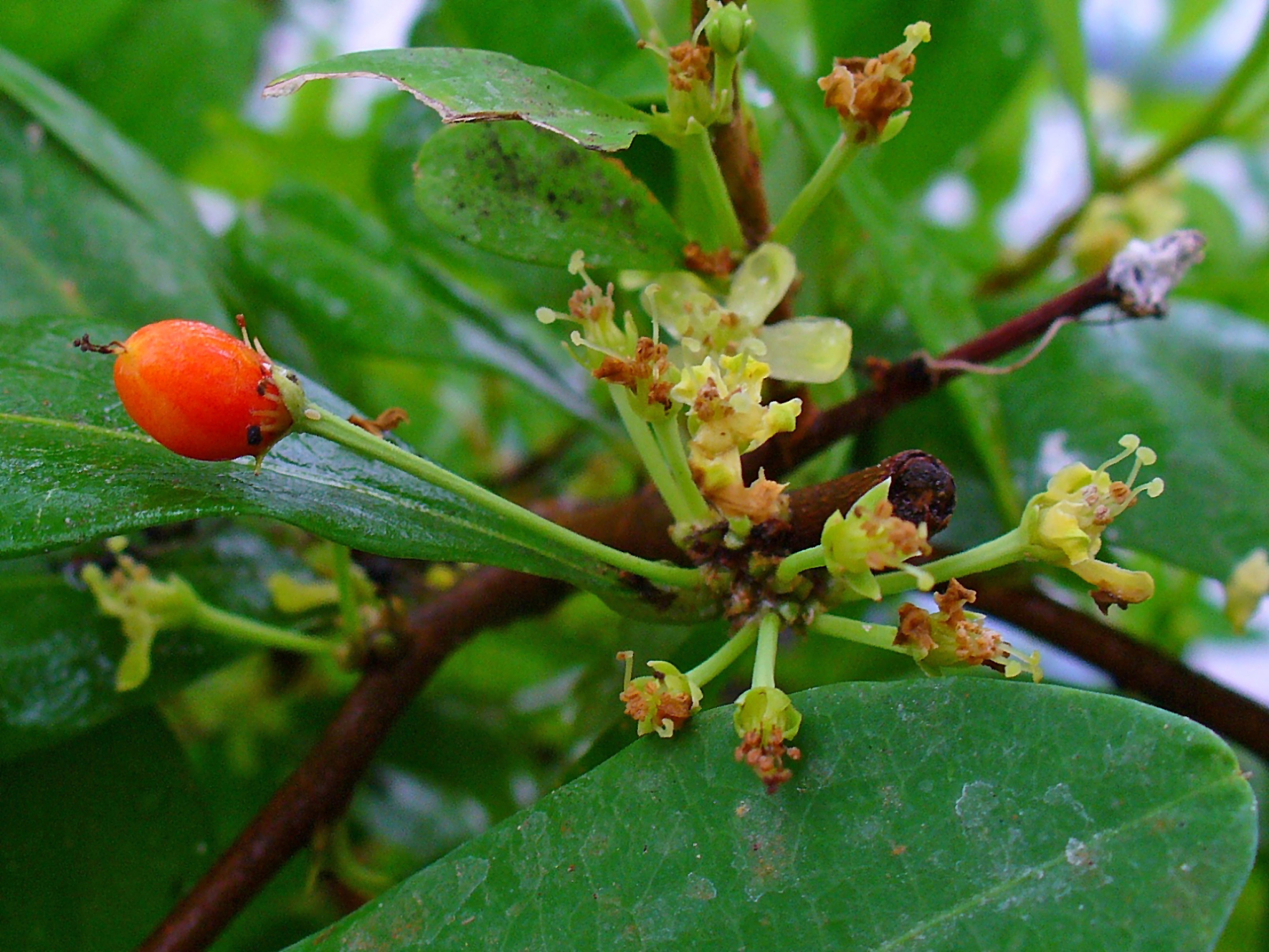 Erythroxylum coca, Erythroxylaceae, Coca, fruit. The alkaloid cocaine is used in homeopathy as remedy: Cocainum purum (Cocain-p.)